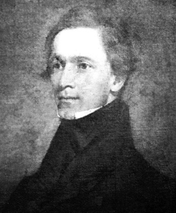 Portrait of Philip St. George Cocke, member of the Board of Visitors of the Virginia Military Institute.